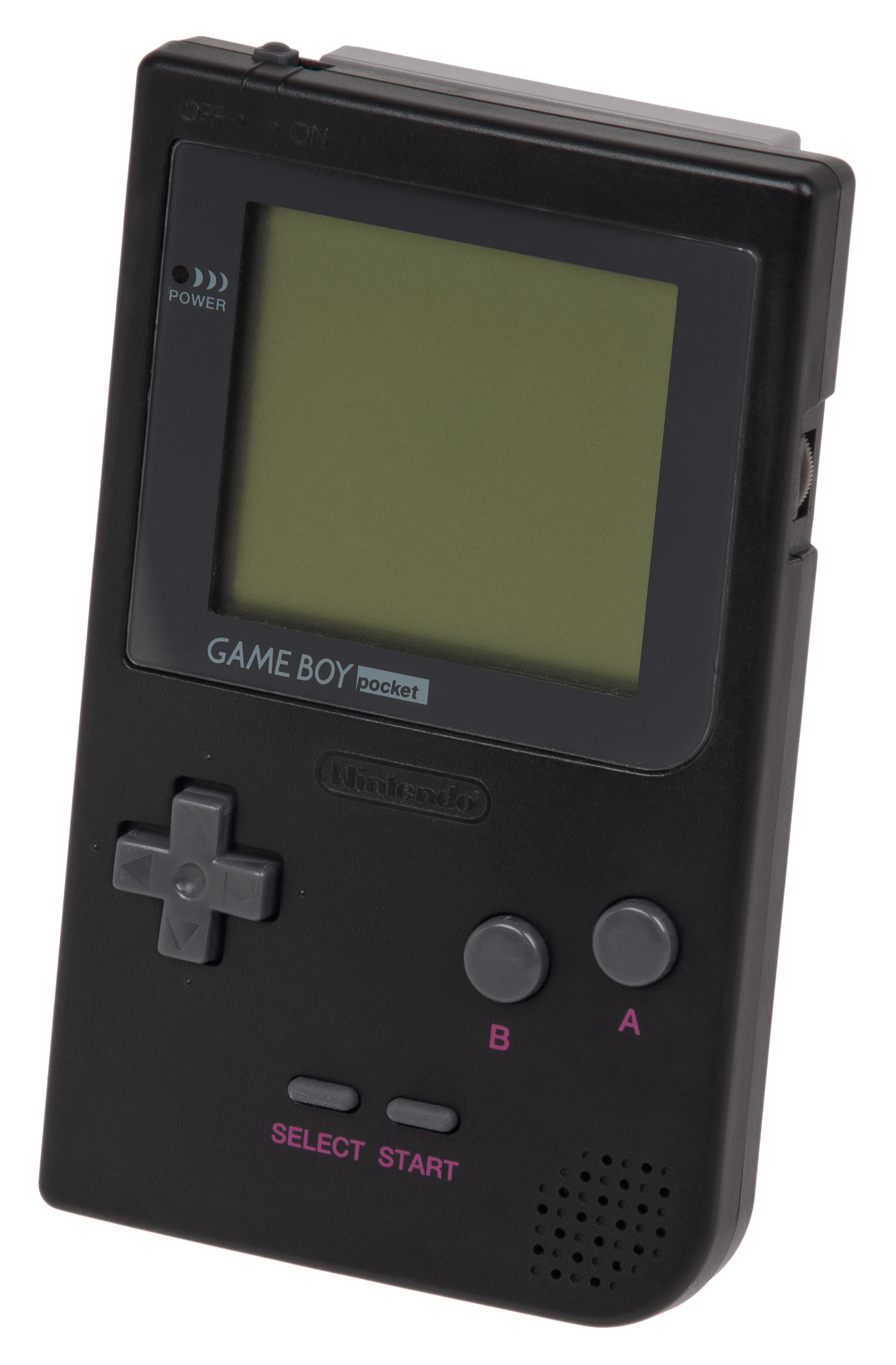 A black Game Boy Pocket, picture taken of a unit inside a display case at the Nintendo Store in NYC.